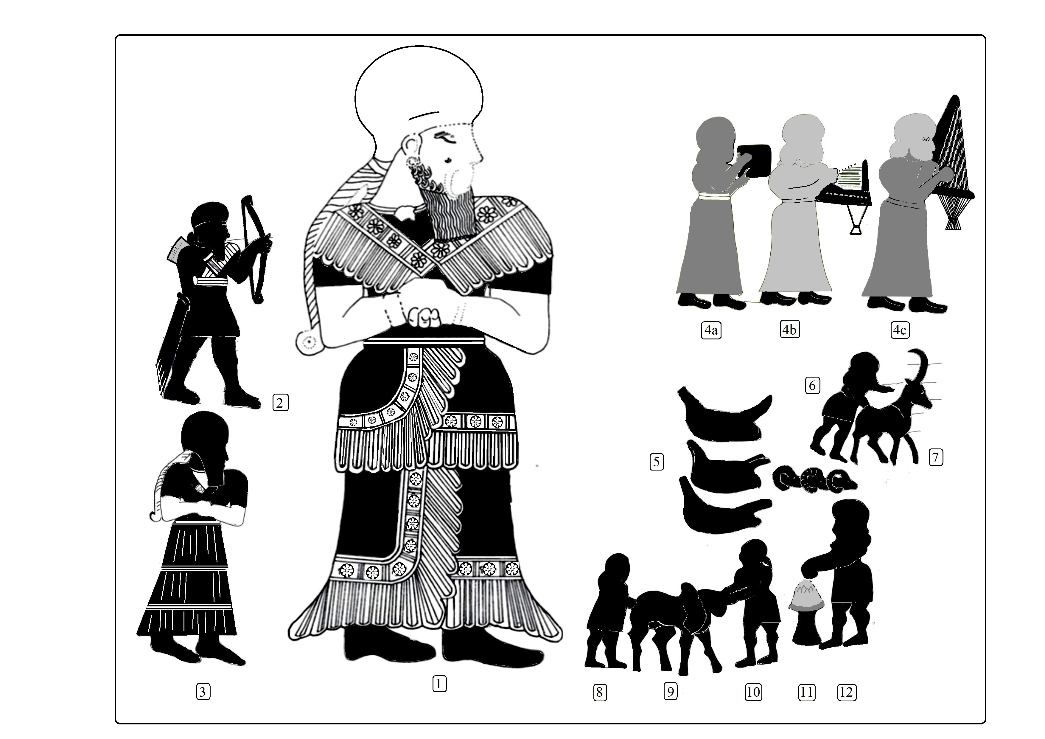 Line-drawing depicting Hanni of Aiapir and acolytes assisting at a sacrifice of animals